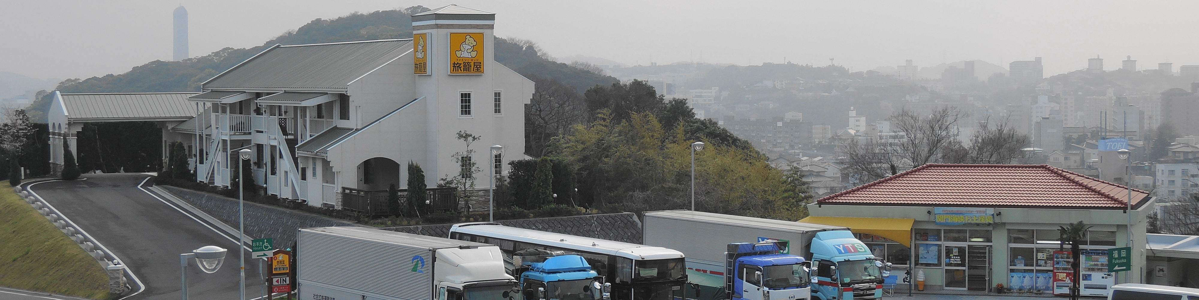 Dannoura Paking Area in Yamaguchi Prefecture, Japan